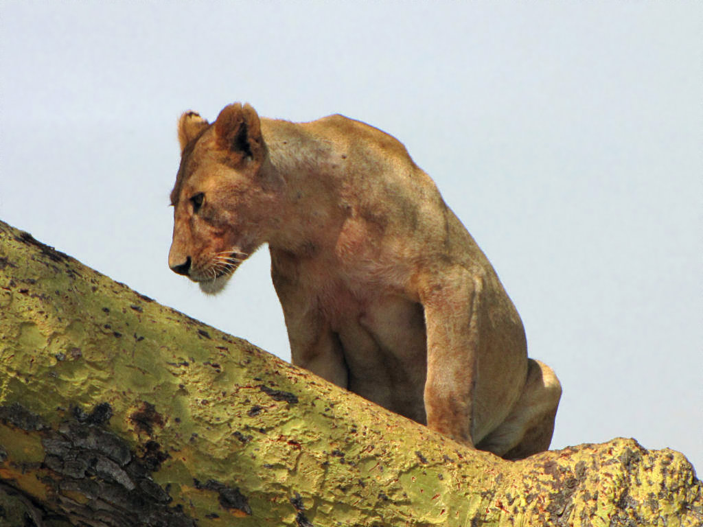 Female Lion (Panthera leo), resting in Yellow Fever tree after feeding, Serengeti, Tanzania